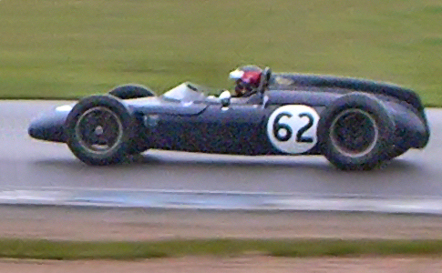 Ian Ashley demonstrating an LDS-Alfa Romeo at Donington Park